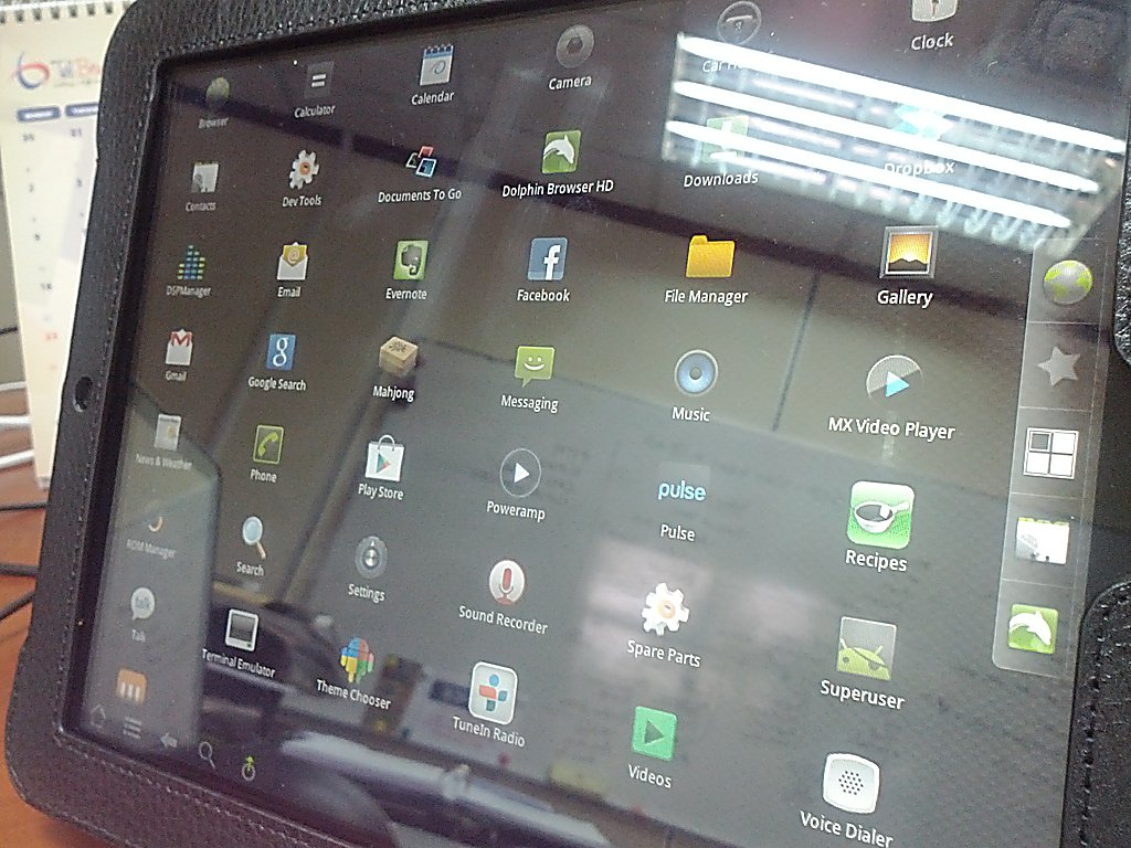 Taken with picplz.